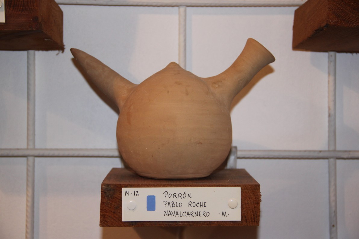 Spanish pottery: "porrón" made in Navalcarnero by Pablo Roche.